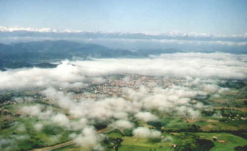 Photo self-taken in 2002